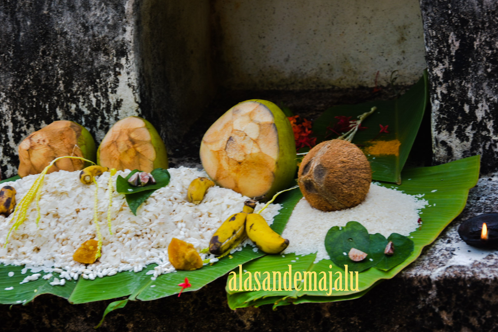 ತುಳುವೆರೆ ಆಚರಣೆ